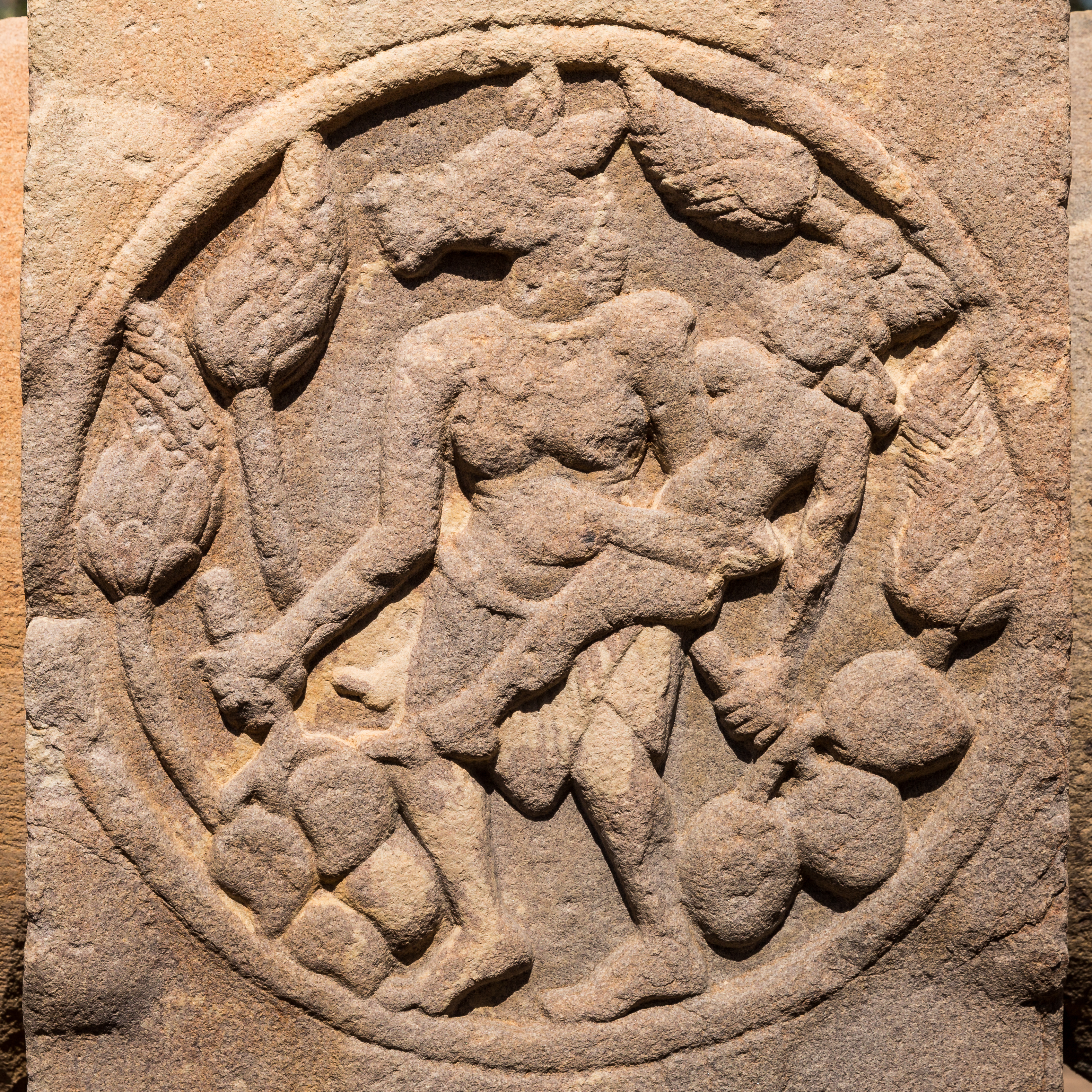 Sanchi Stupa number 2